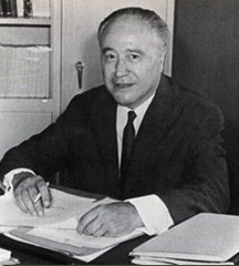 Léo Collard